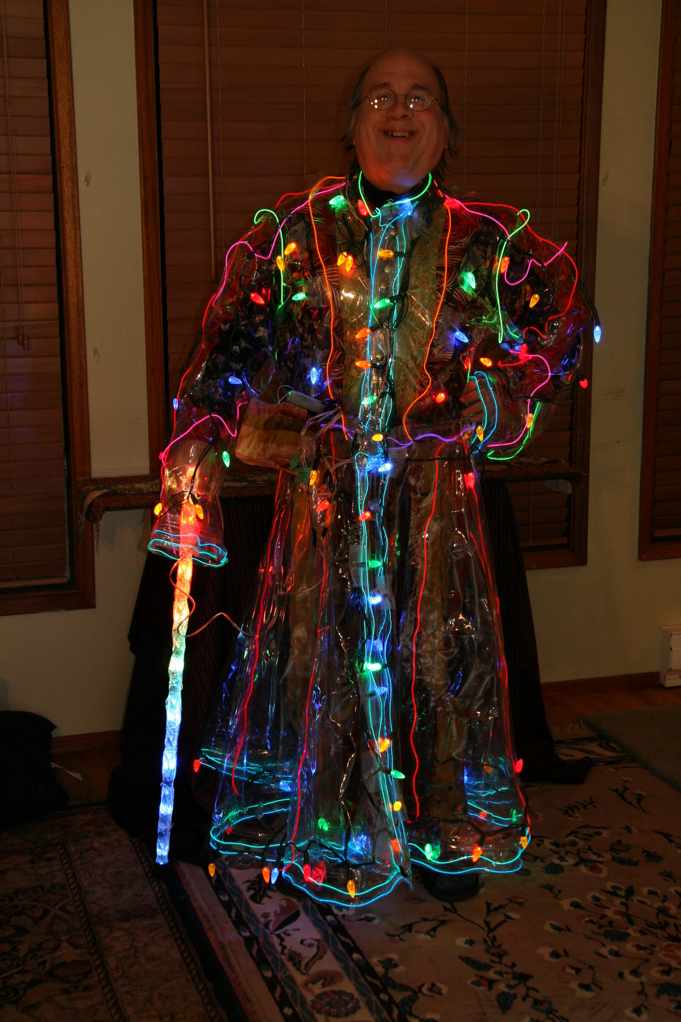 Mark Allyn's photo of Mark Allyn modeling a custom made lighted outfit that he designed and constructed Lighted raincoat with lighted cane